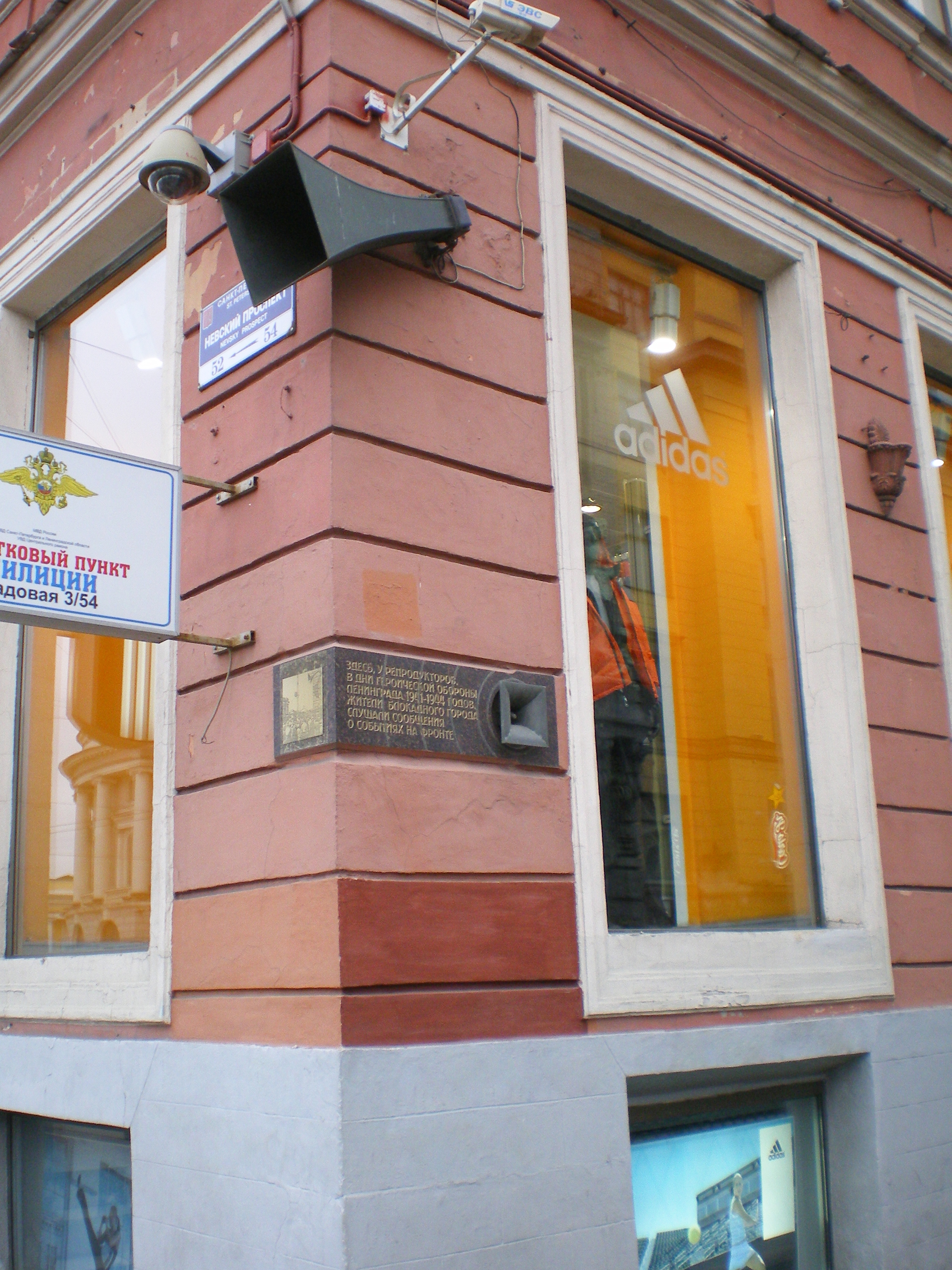 Monument to the heroic defense of Leningrad at Malaya Sadovaya street in Saint Petersburg, house № 3. Over view.